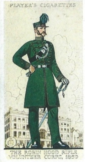 Uniform of the Robin Hood Rifles (later 7th Battalion, Sherwood Foresters) raised in 1859